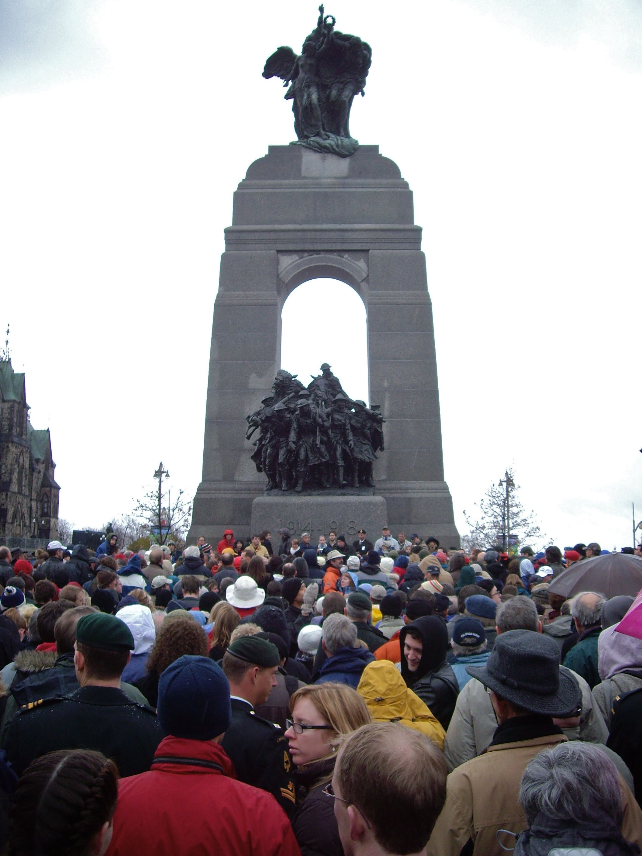 The National War Memorial in Ottawa, Ontario, Canada, immediately following the Remembrance Day ceremonies on November 11, 2006. The crowd surrounding the Memorial is waiting to pay their respects to the Tomb of the Unknown Soldier in front of the memorial by leaving their poppies.